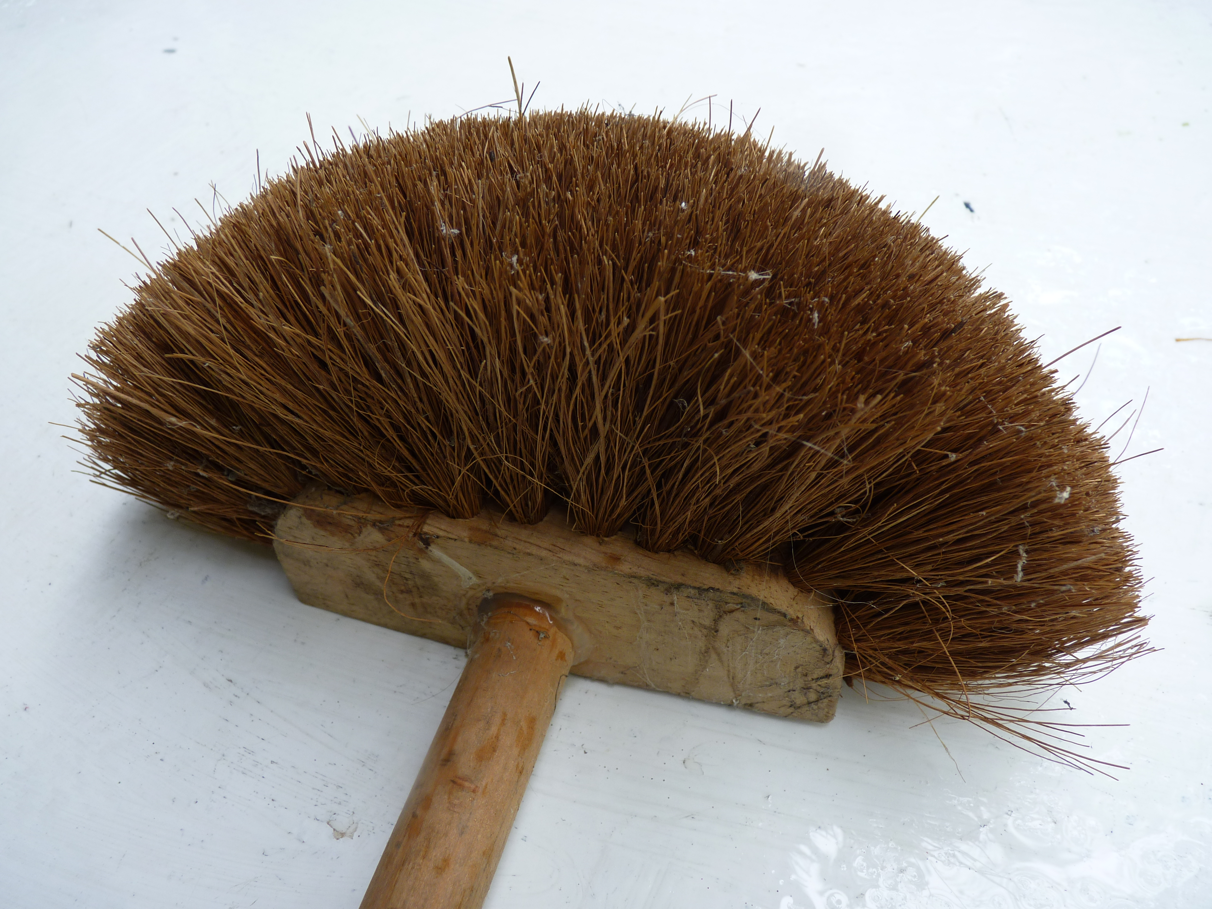 A quarter sphere brush for removing spider webs